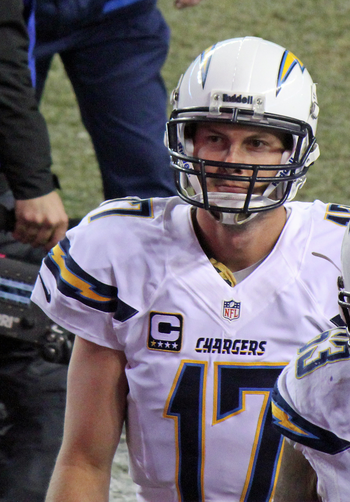 Philip Rivers, a player on the National Football League.